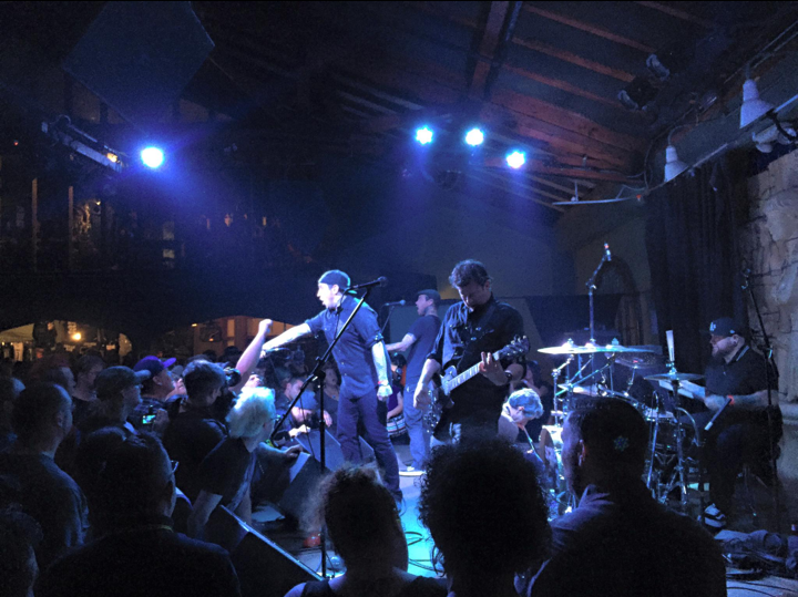 Screw 32 playing live at the Numbskull Productions 27th Anniversary concert in Santa Cruz on November 18th, 2016. Andrew Champion leading the audience in a singalong.